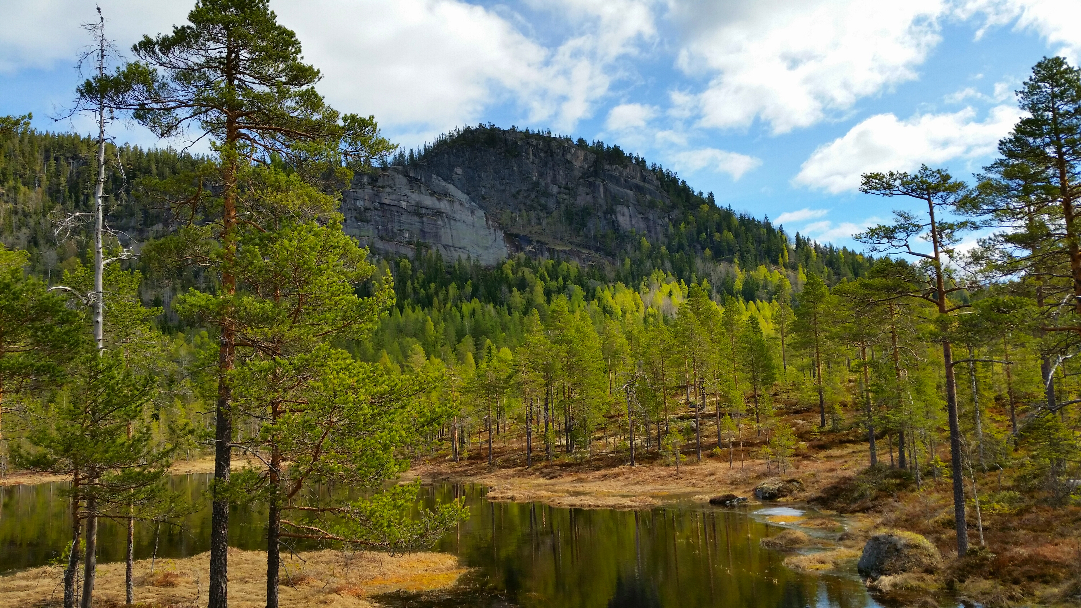 Tjuvenborgen, a small mountain in Ringerike county, Norway